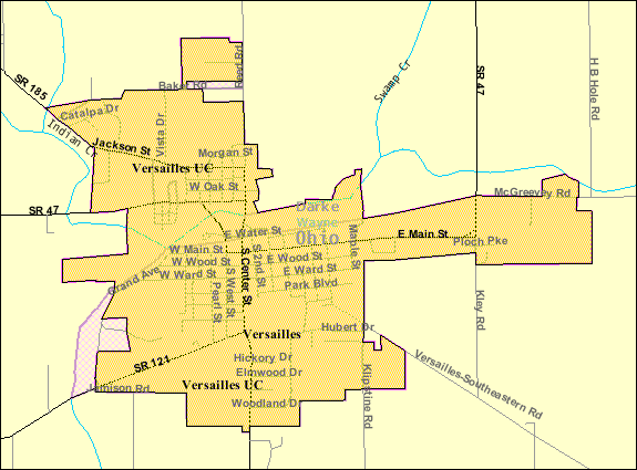 Map of Versailles, a village in Logan County, Ohio, United States, with its boundaries at the time of the 2000 census.